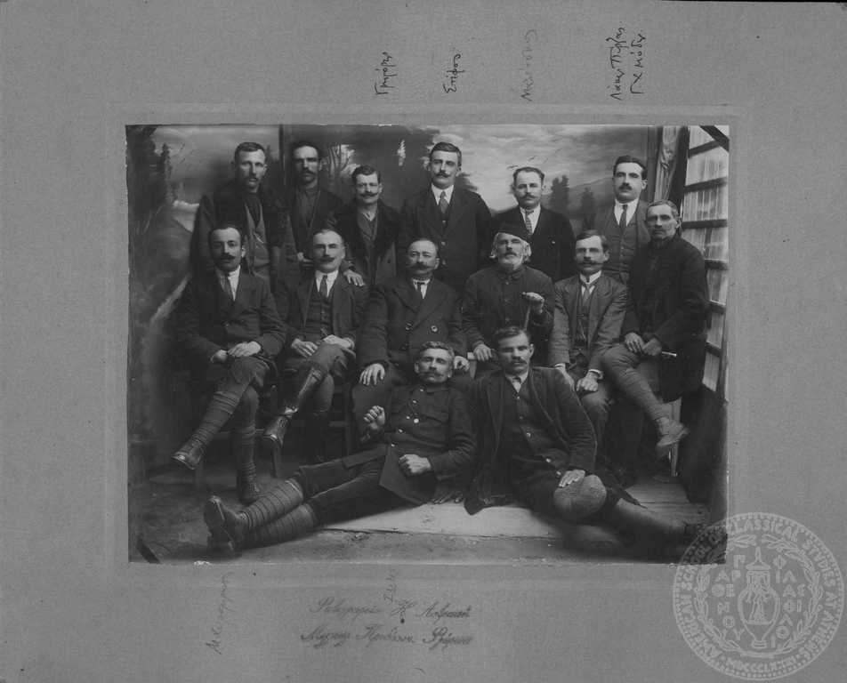 Greek revolutionaries (on clockside) Grigoris Stefos, Naletskos, Lakis Pirzas, Georgios Modis, Mawvromatis, Zois.